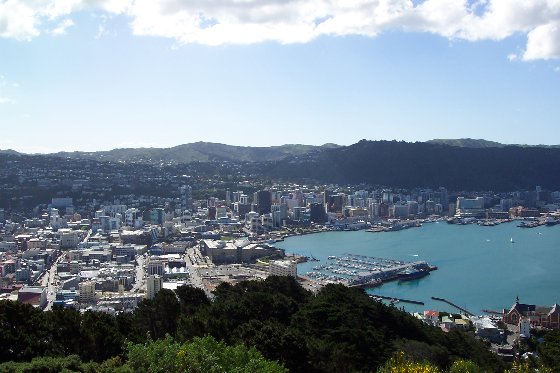 Photo taken by Steffen Hillebrand